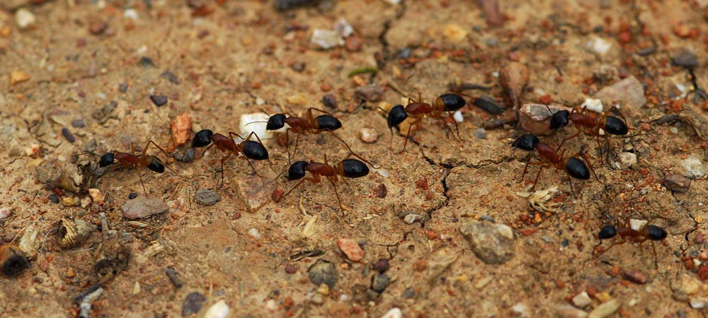 Camponotus consobrinus workers recruit additional nestmates to newly discovered food sources. The lead worker (on the left) has returned to the nest and is leading the remaining workers back to the food source. This behaviour is called tandem running.